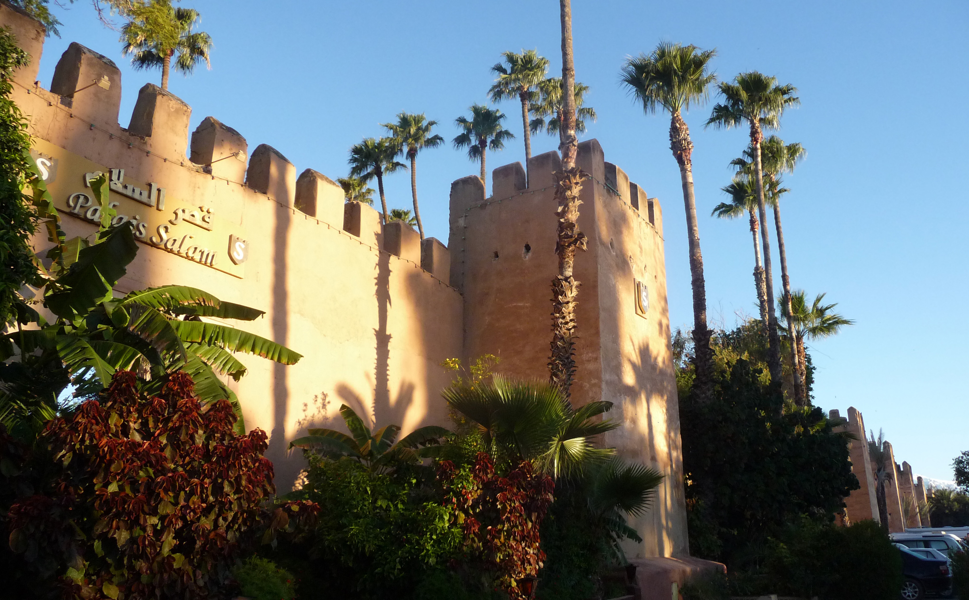 Our Hotel at Taroudant, behind the City fortifications